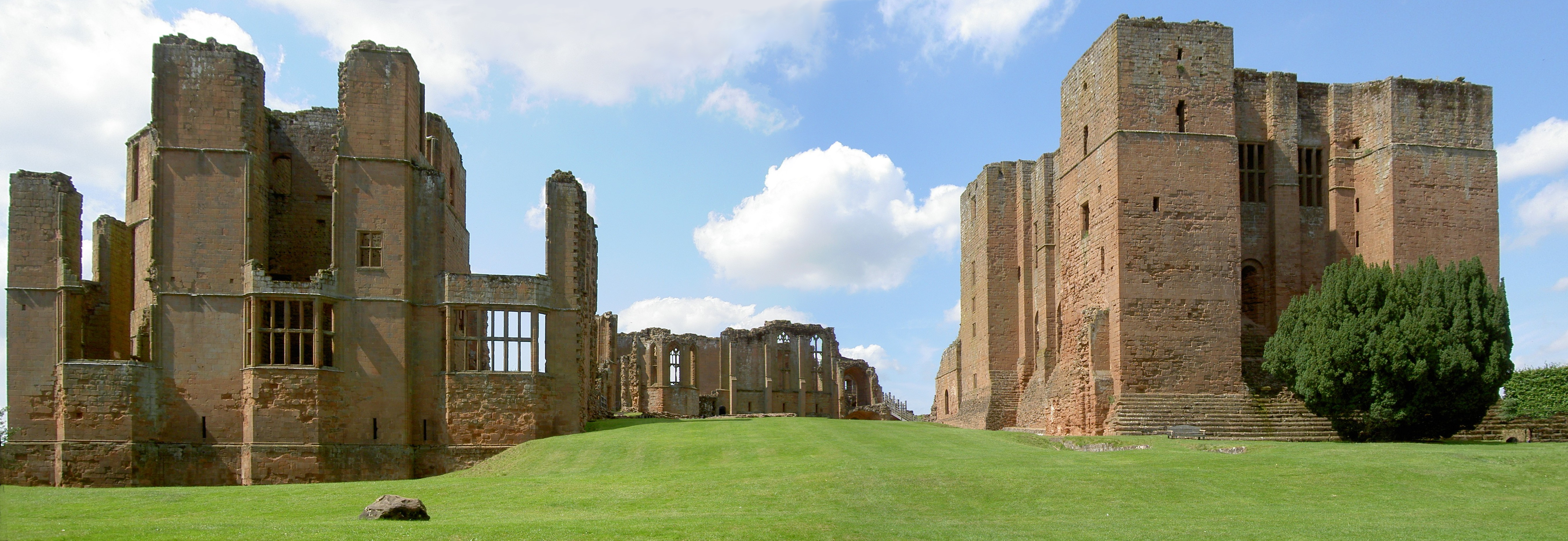 Kenilworth Castle, panorama taken from the east